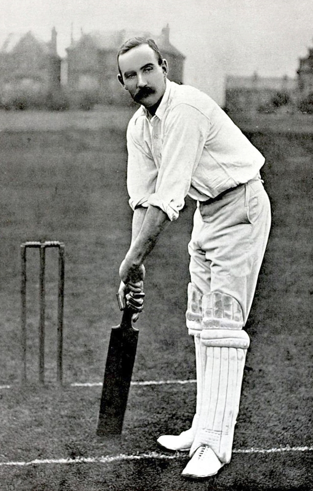 A scan of cricketer Harry Daft